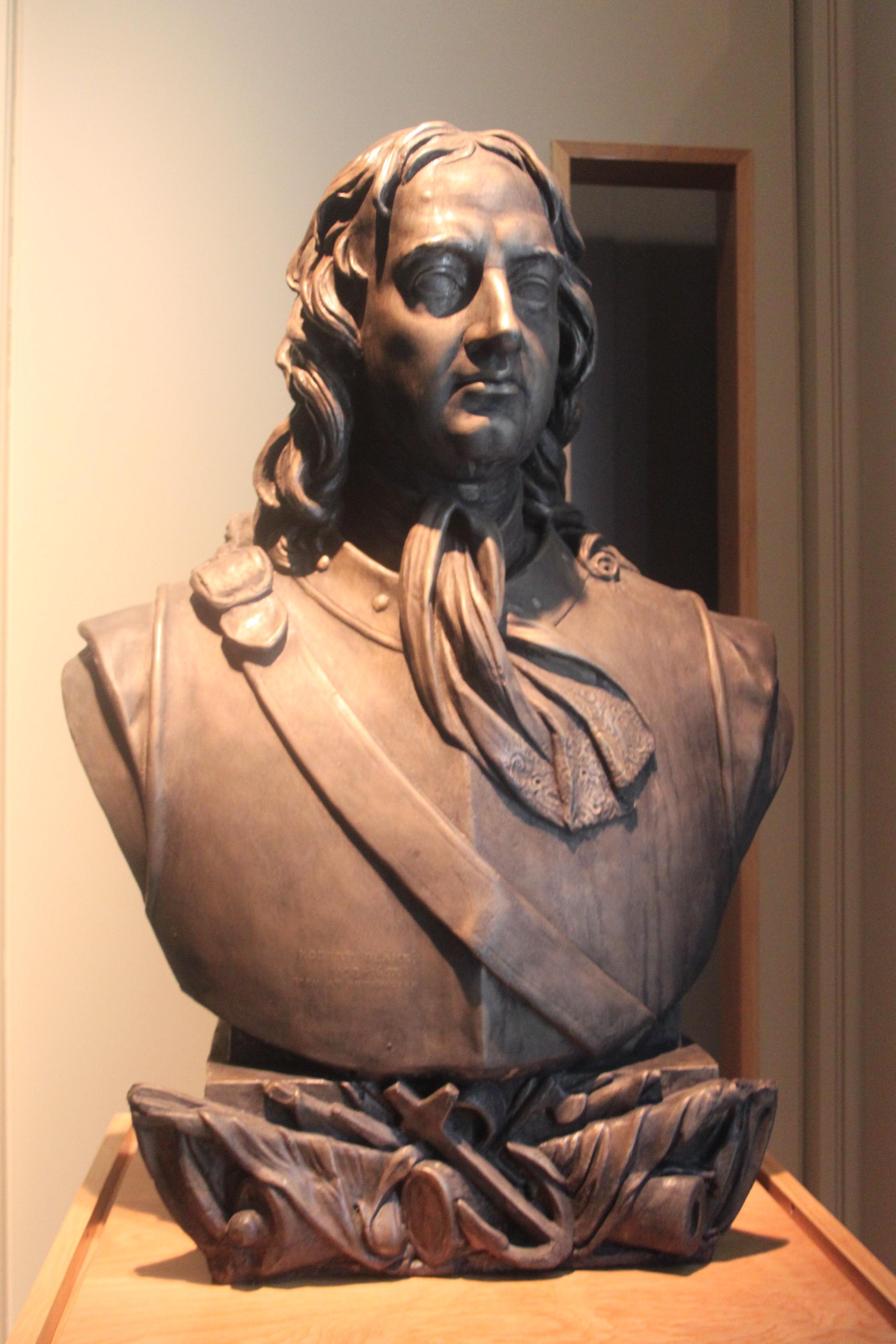 Bust of Robert Blake in the Museum of Somerset